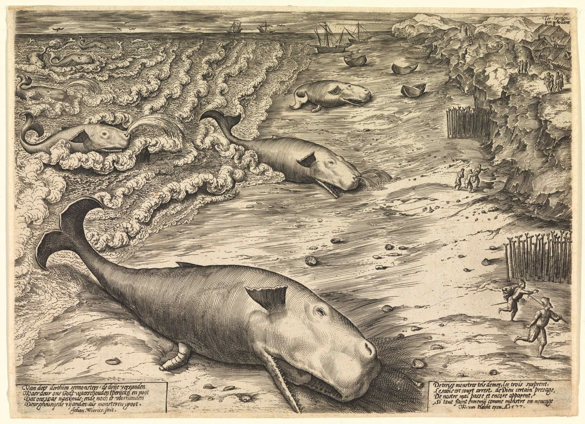 The print depicts stranded Sperm Whales.